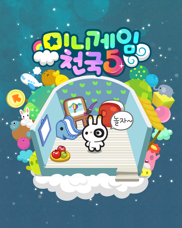 Mini Game Paradise 5